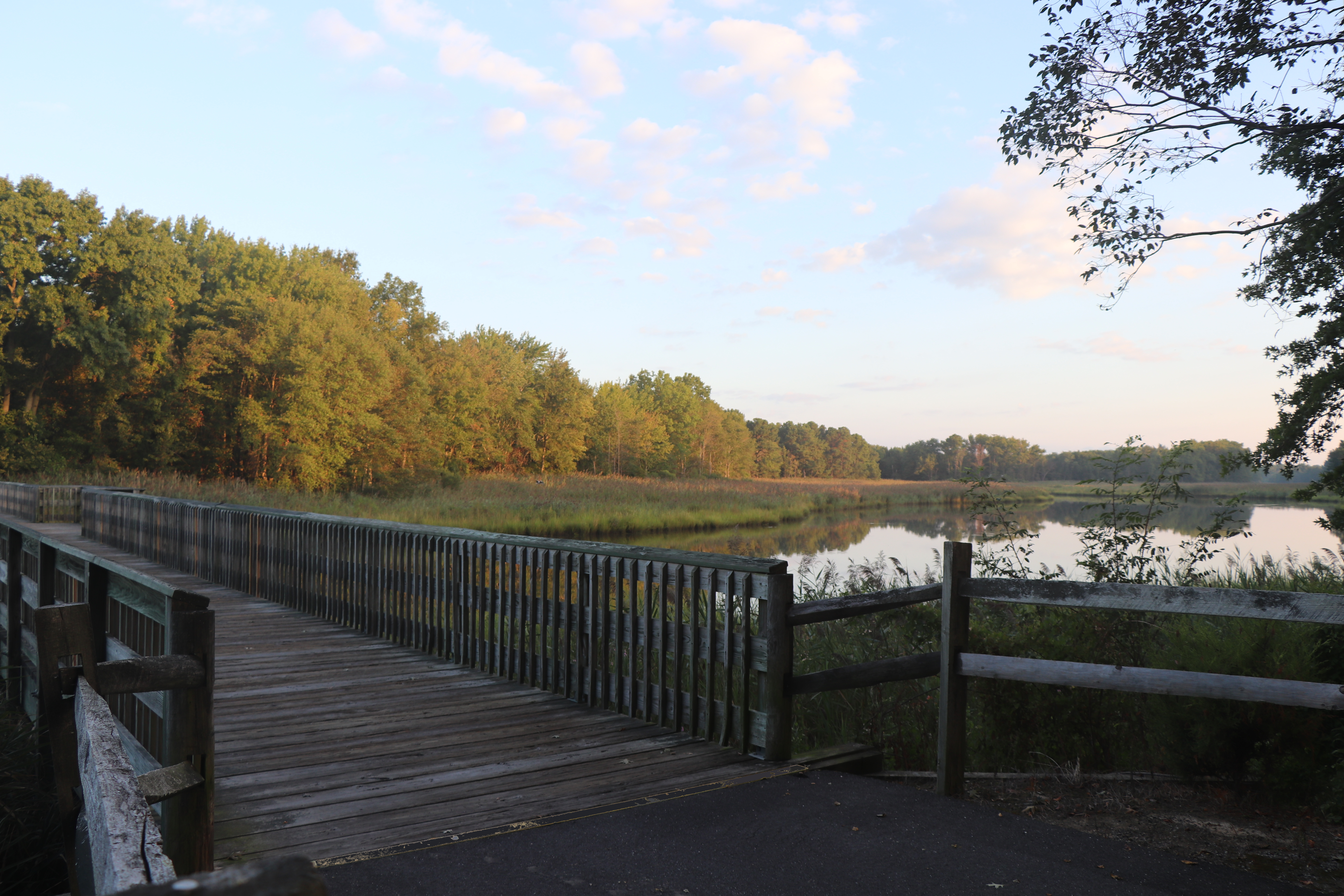 Maryland, Cross Island Trail. Wikidata has entry Q5188324 with data related to this item.